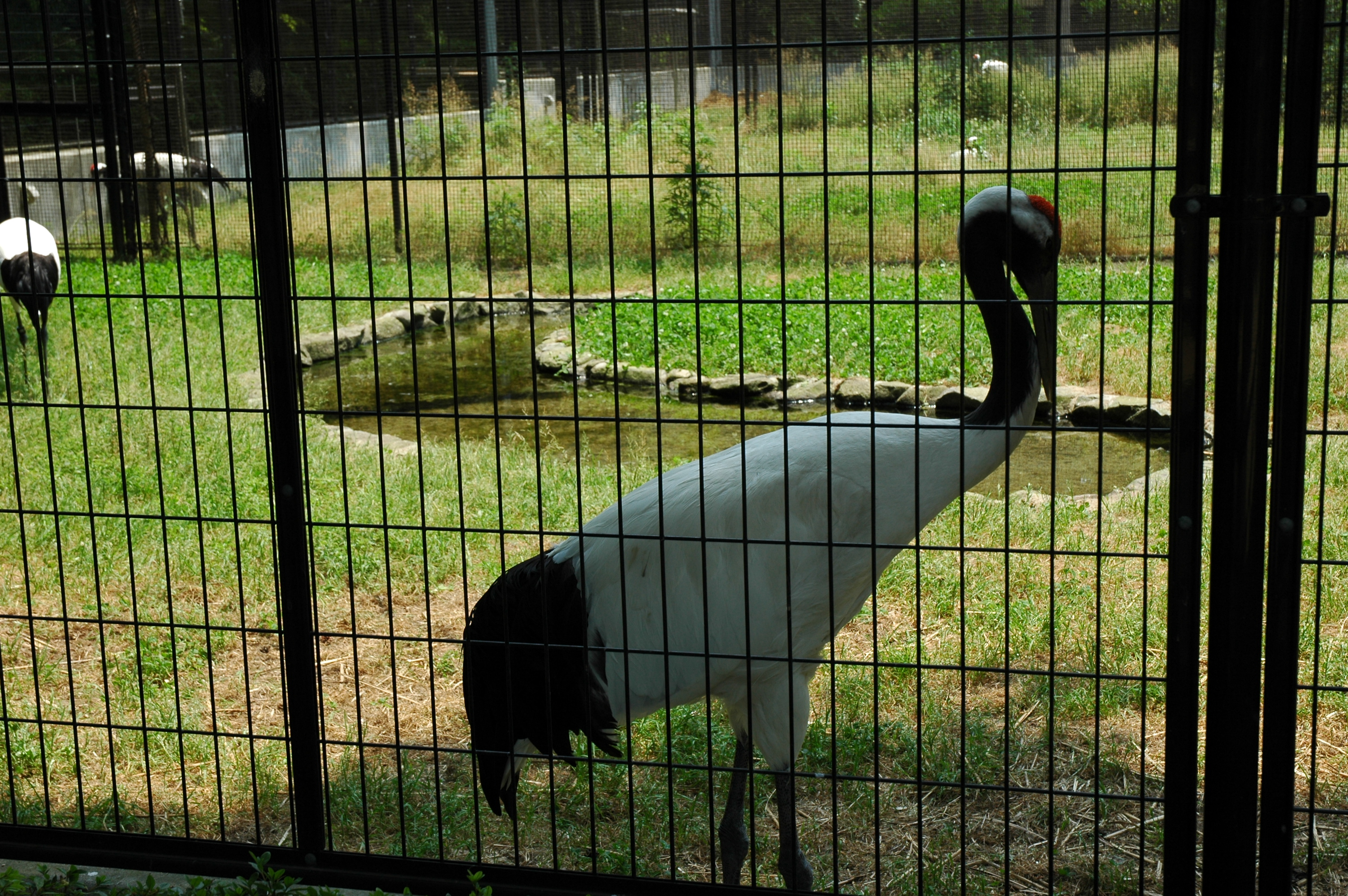 sacred cranes in Korakuen, Okayama, Okayama, Japan